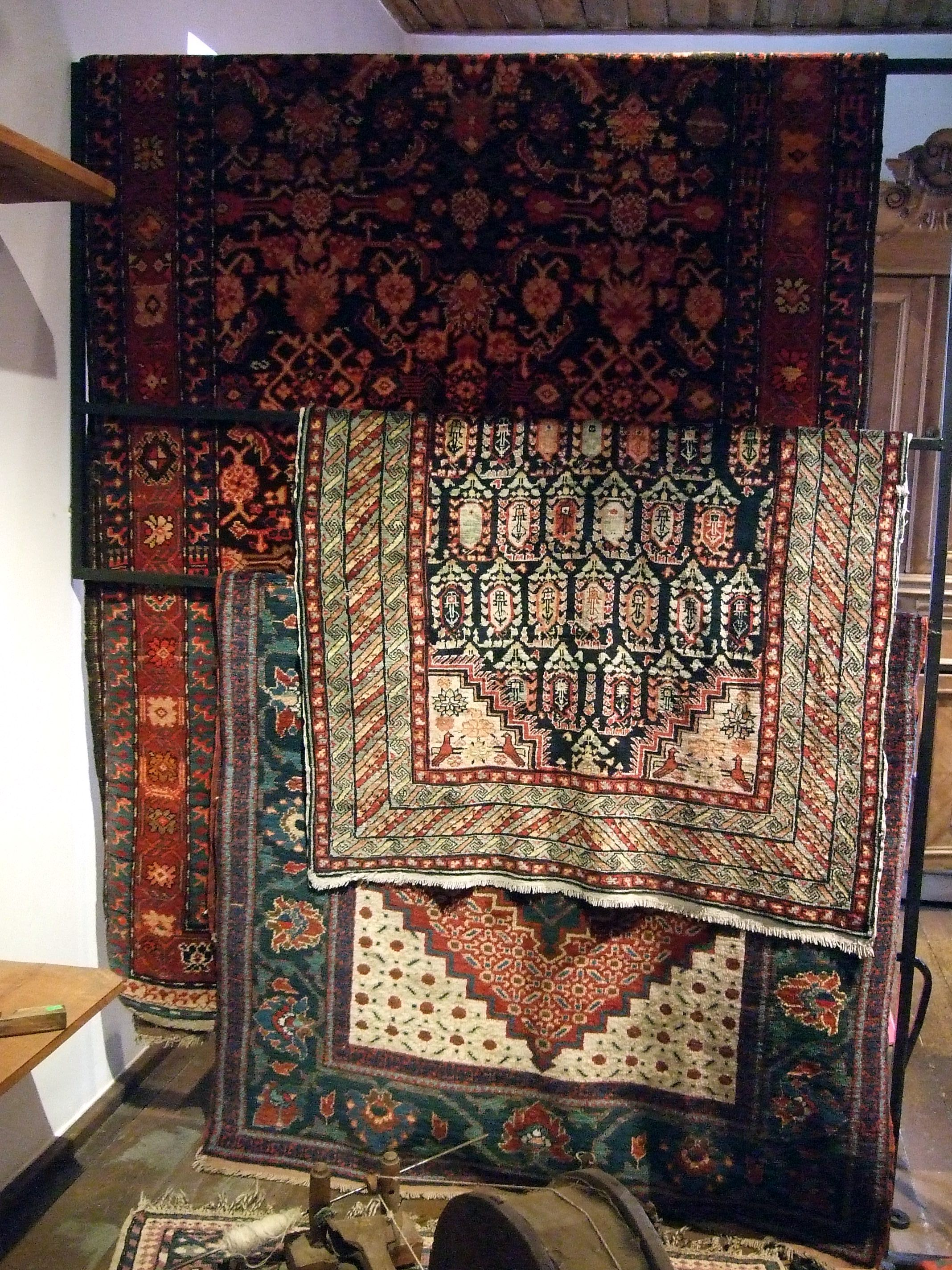 Dilijan carpets in Dilijan Historical and Cultural Reserve Museum